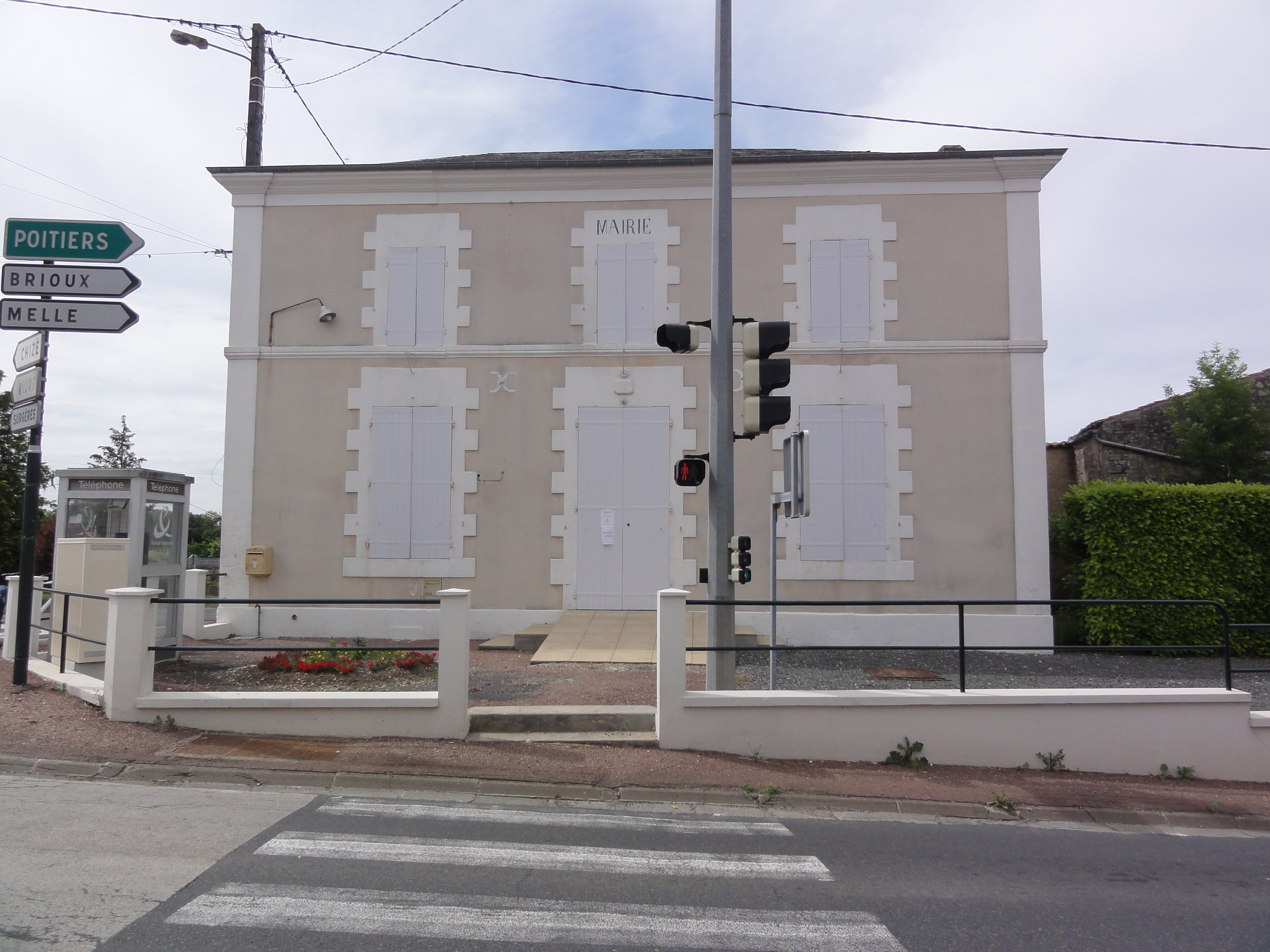 La Villedieu (Charente-Maritime) mairie